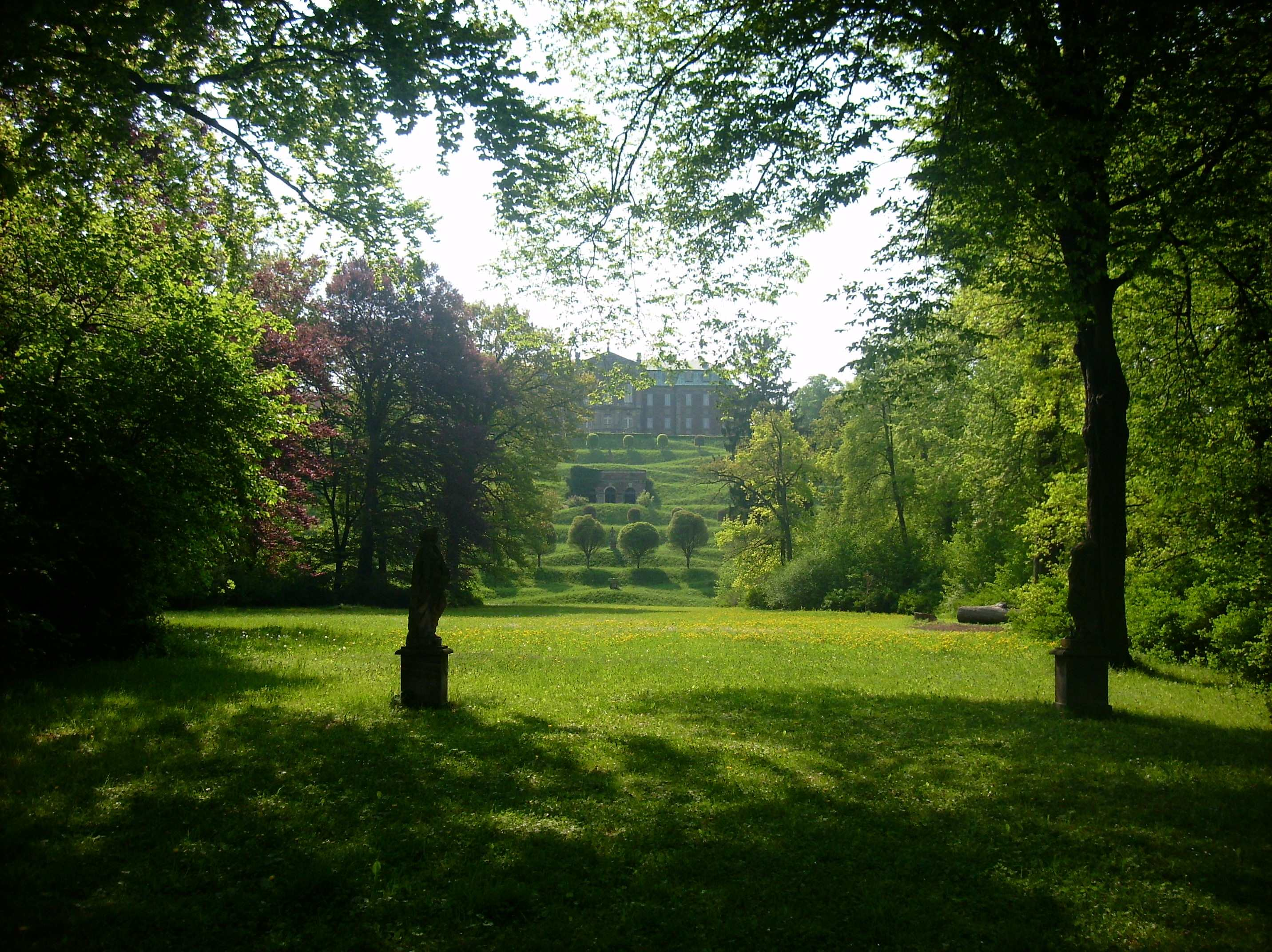 Gardens and castle of Burgscheidungen (Laucha an der Unstrut, district of Burgenlandkreis, Saxony-Anhalt)